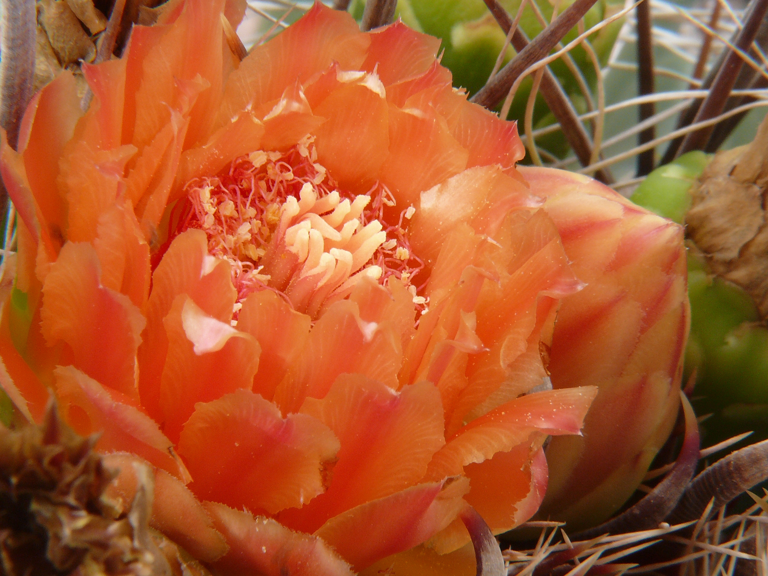 Flower of a Fishhook Barrel Cactus (Ferocactus wislizeni) taken in Tucson, AZ